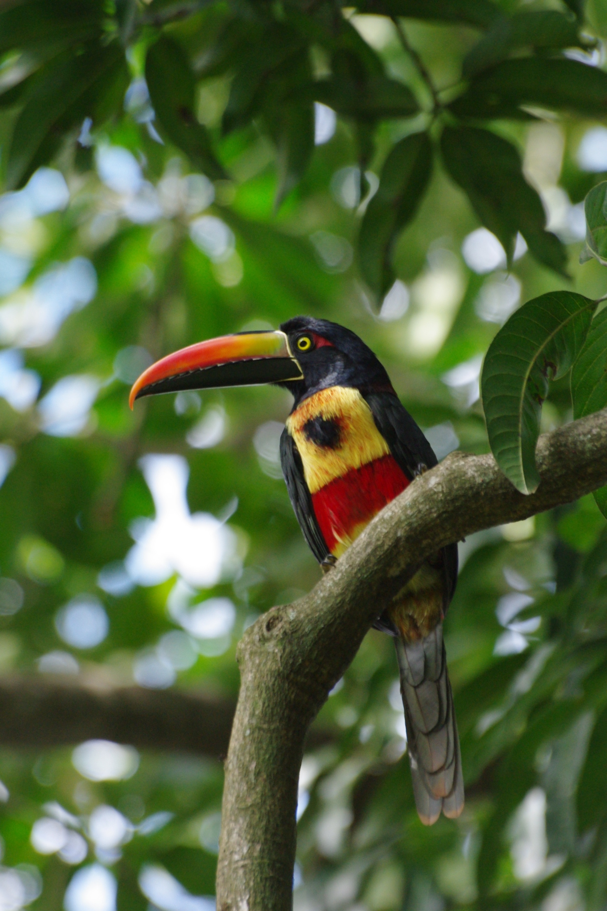 Fiery-billed Aracari (Pteroglossus frantzii) in Alajuela, Costa Rica.